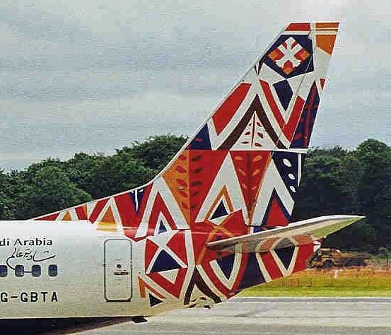 Youm-al Suq-, Saudi Arabia World Tail c/scheme